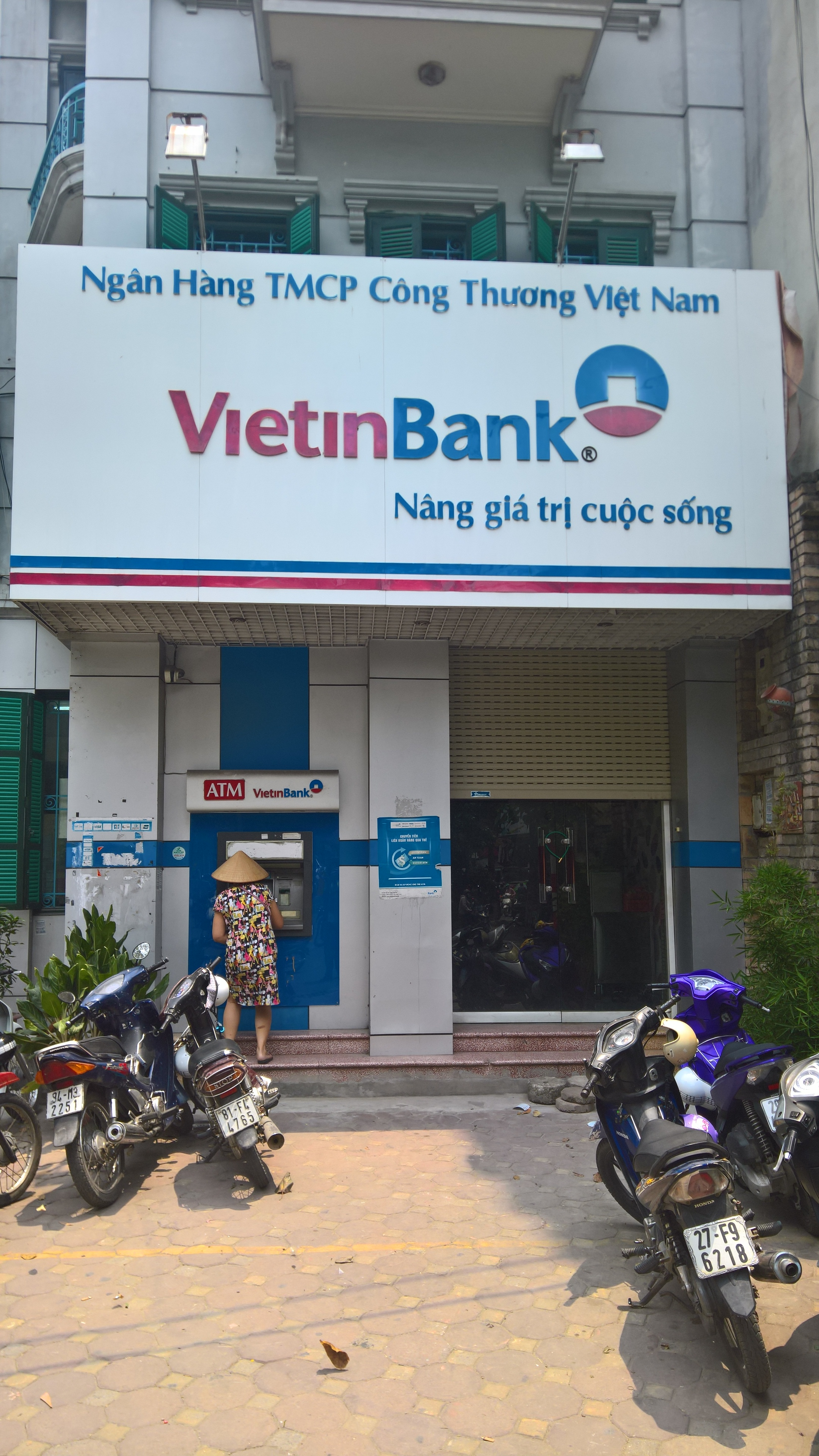 An office of the Vietinbank in the Hai Ba Trung District.